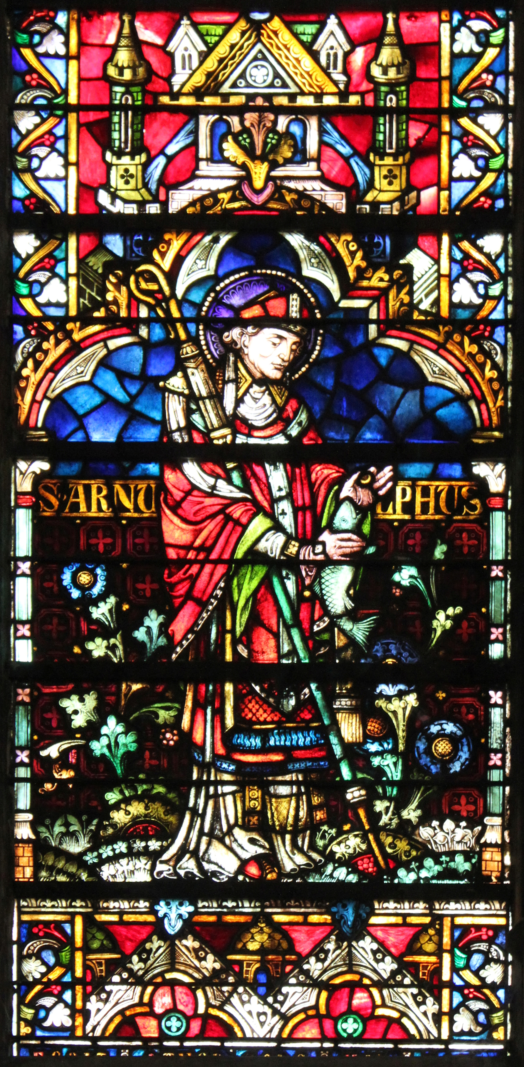 St. Arnoul de Metz, Window by Hermann de Munster, 14. century, Cathedral of Metz, France